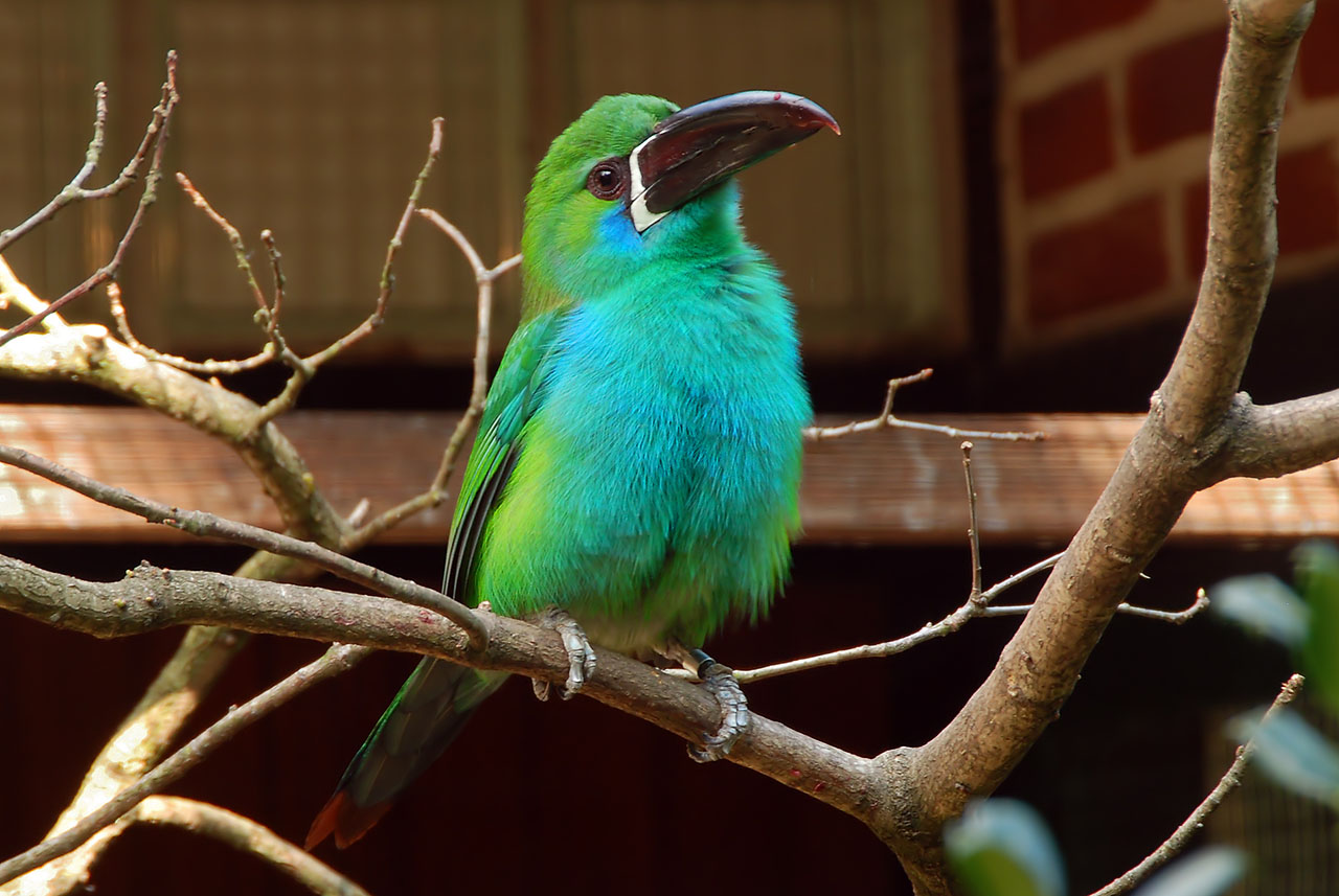 Crimson-rumped Toucanet at Walsrode Bird Park, Germany.